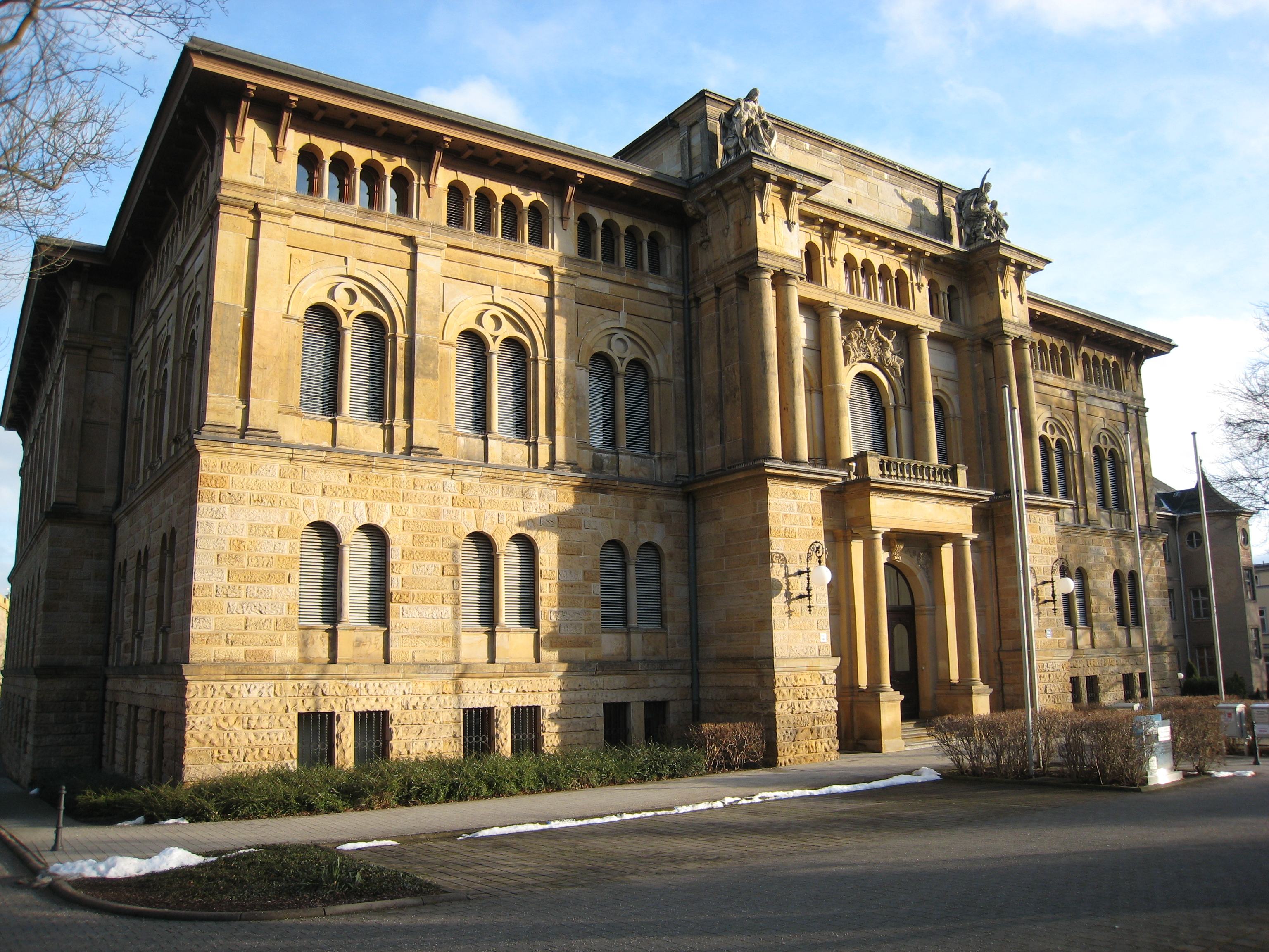 Versicherungsmuseum Gotha, Bahnhofstrasse 3a